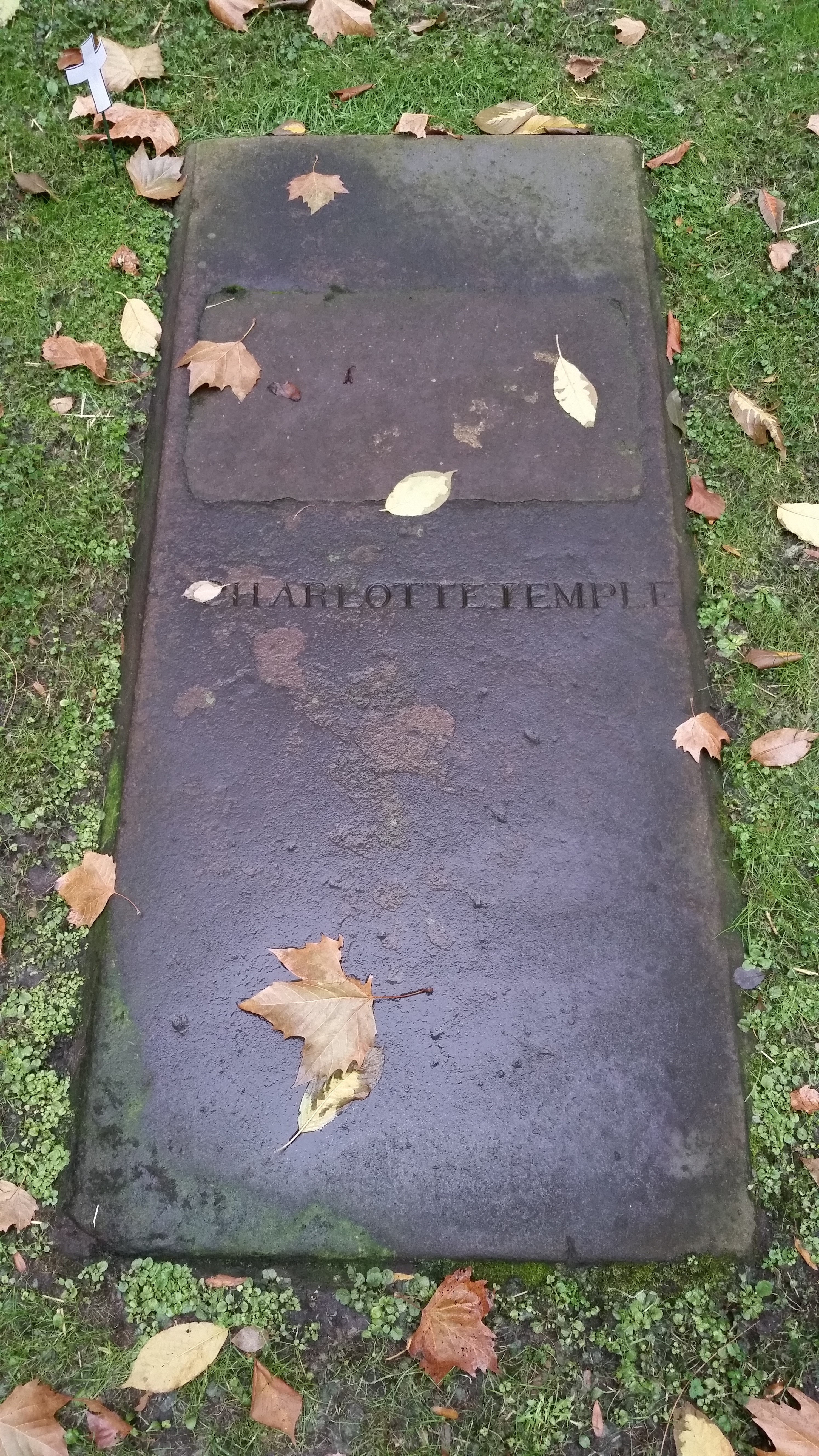 Monument in Trinity Church